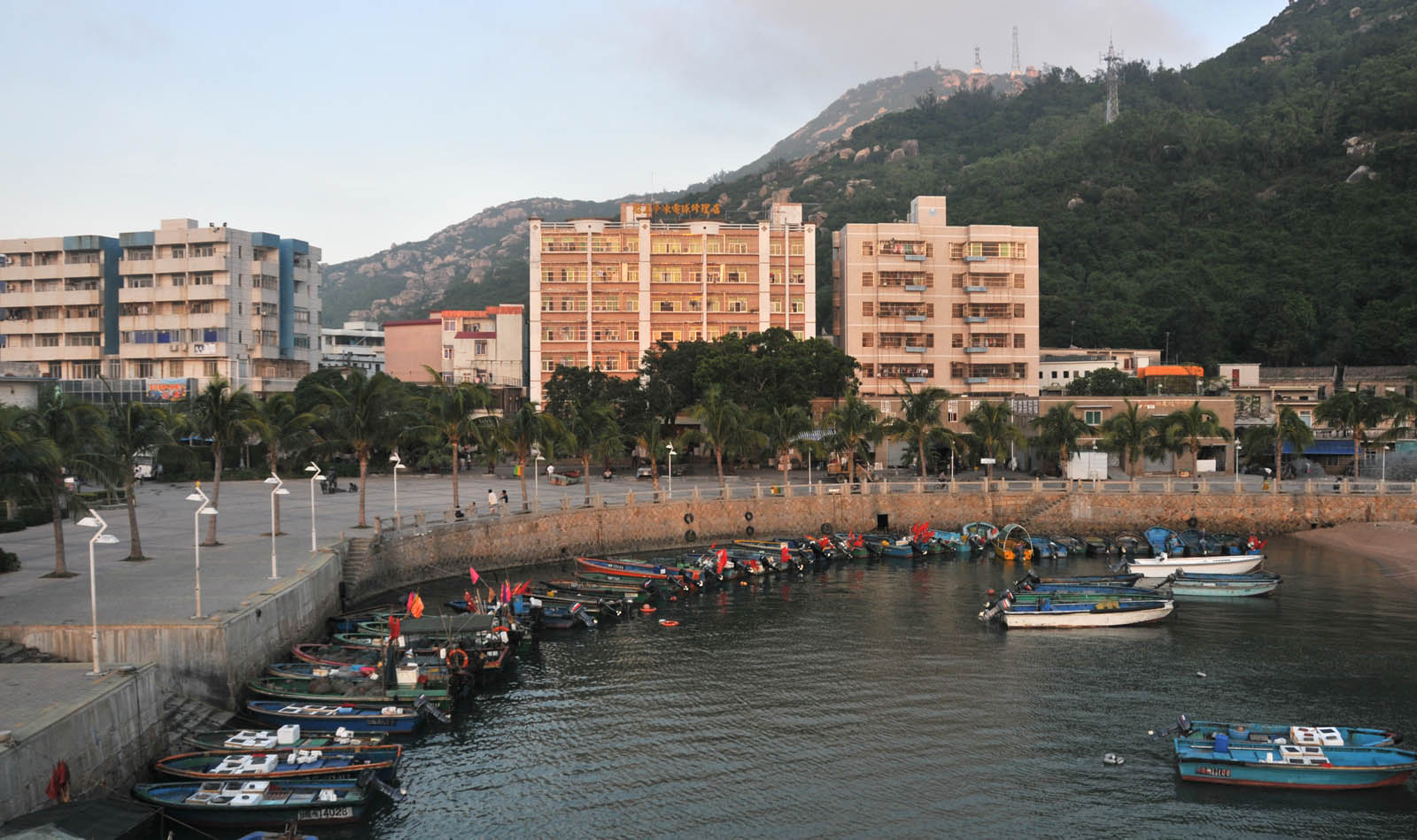 Outer Lingting Island, Kwangtung 粵語: 廣東珠海外伶仃島